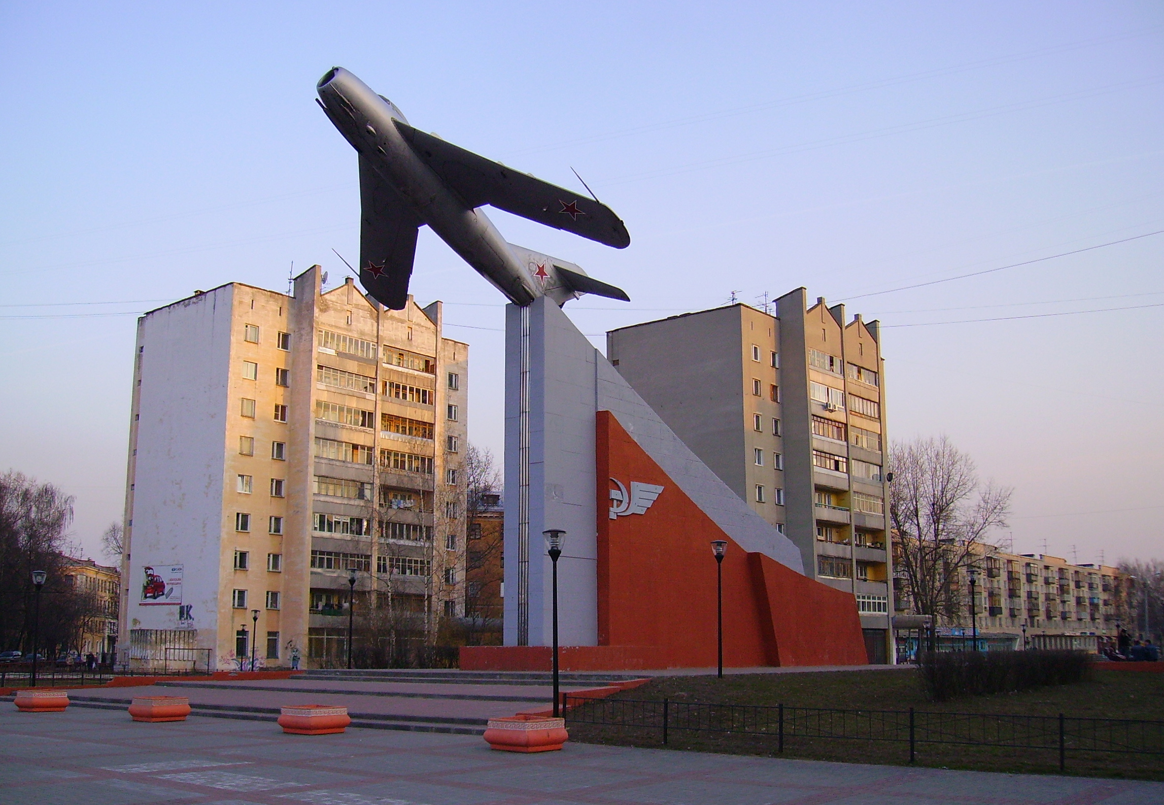 MiG-17 Monument at Chernyakhovsky Street, Nizhny Novgorod